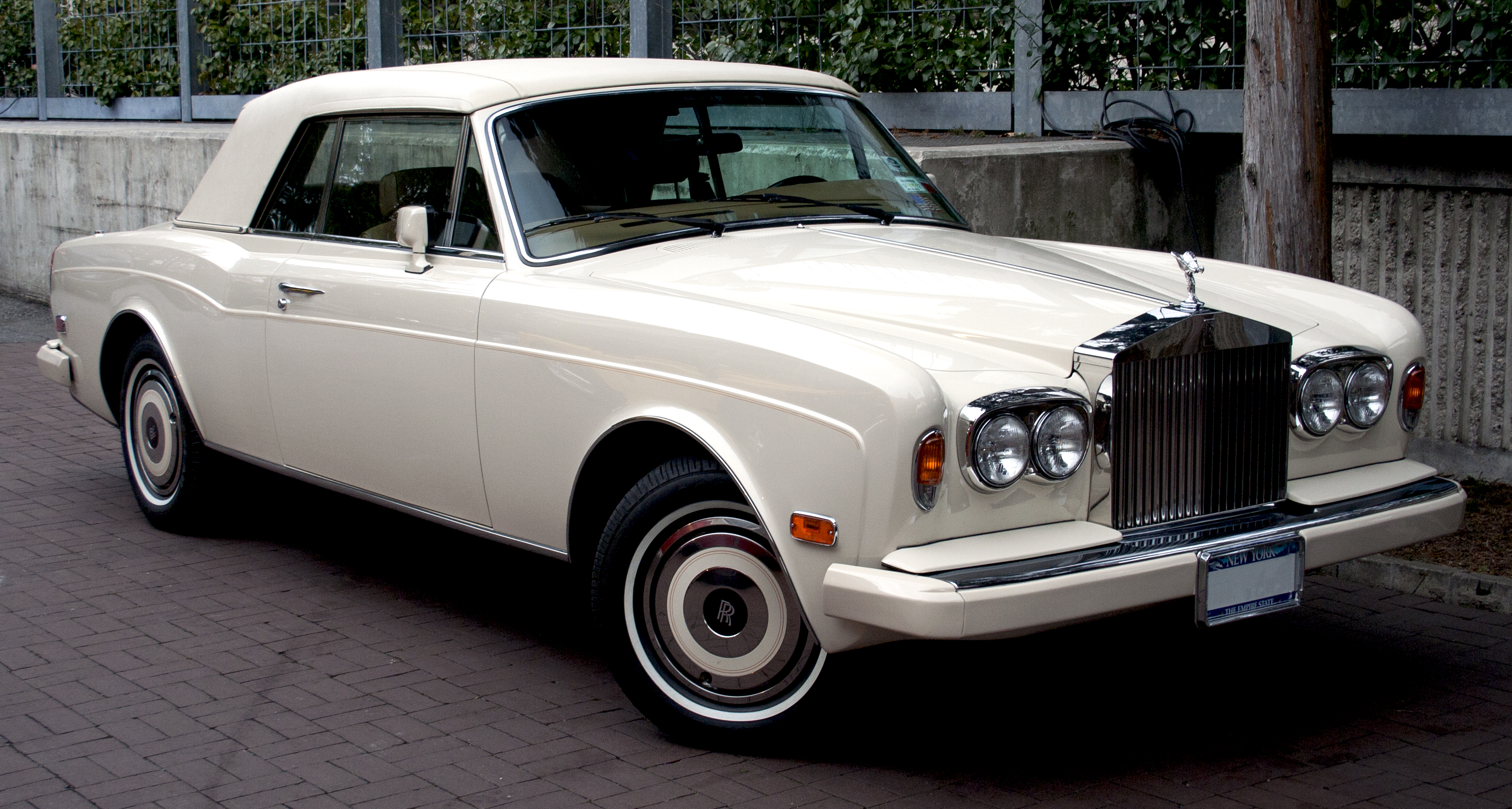 1989 Rolls-Royce Corniche II